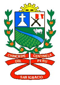 San Ignacio´s shield